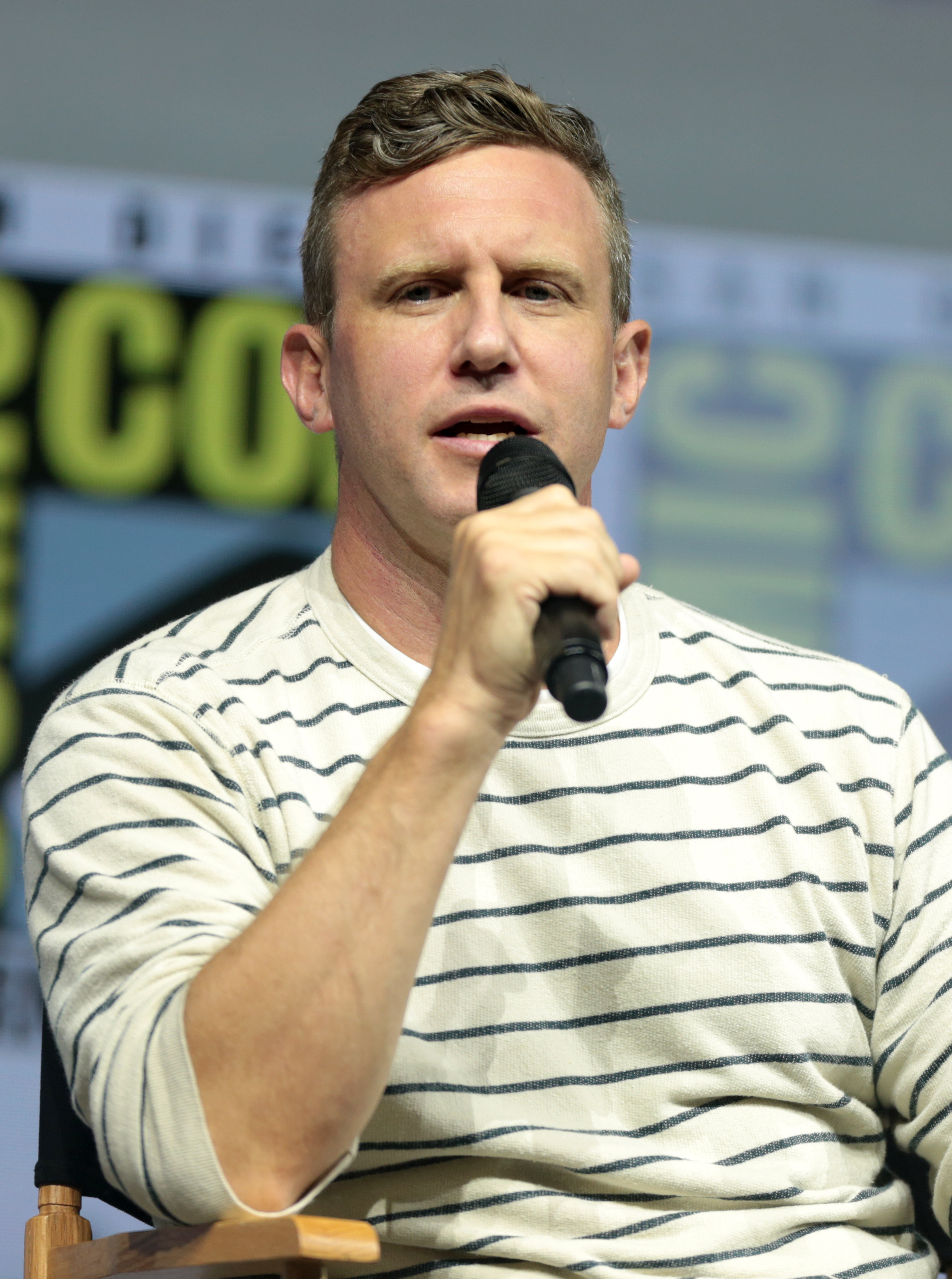 Ruben Fleischer speaking at the 2018 San Diego Comic-Con International in San Diego, California.